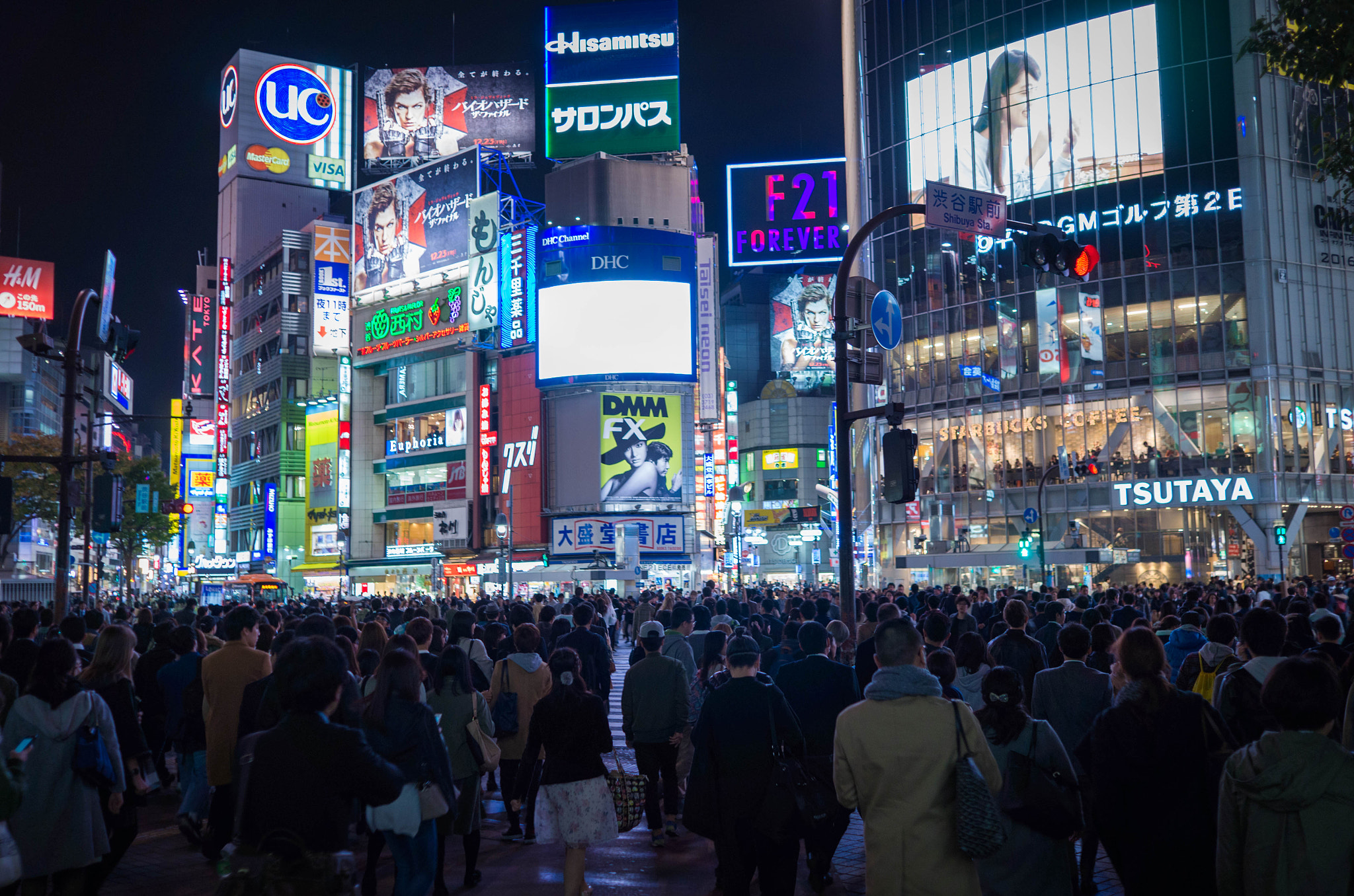 500px provided description: Shibuya Crossing [#People ,#Tokyo ,#Shibuya ,#Japan]